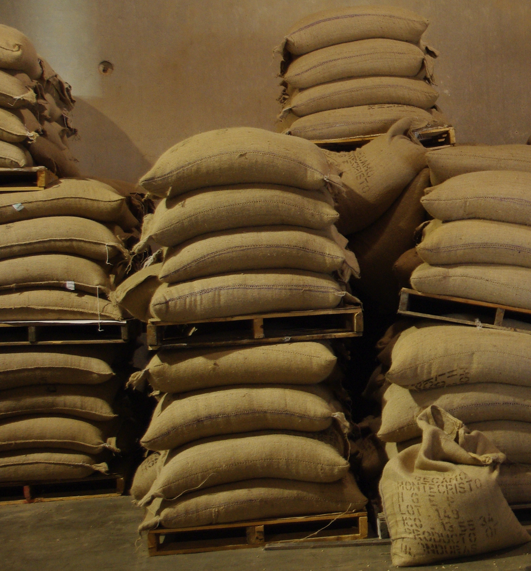 Bags of Coffee beans at Longbottom Coffee and Tea in Hillsboro, Oregon.